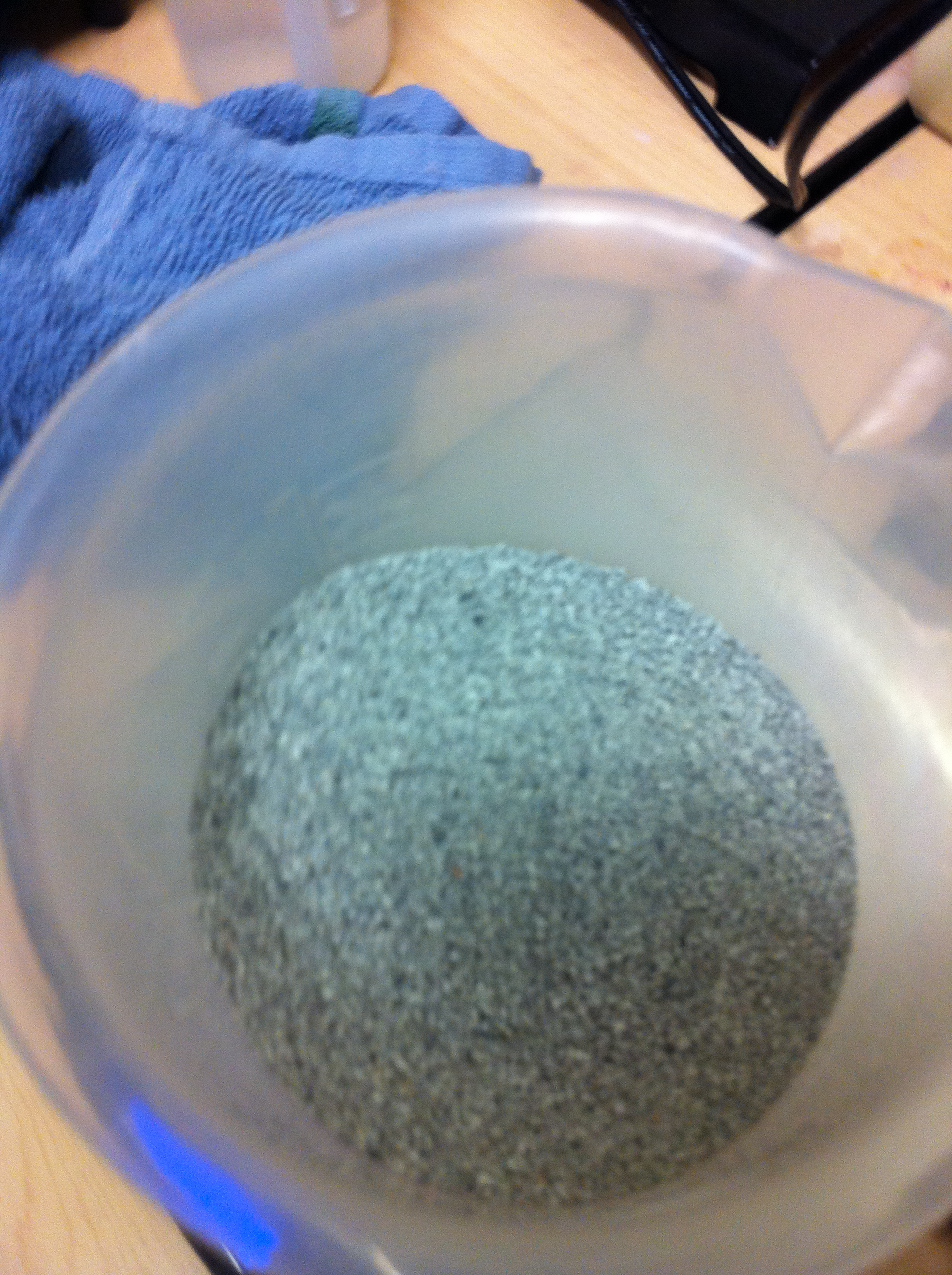 Bentonite particles that will be hydrated and stirred to create a "slurry" that will be added to wine and used as a fining agent to remove excess protein from wines.